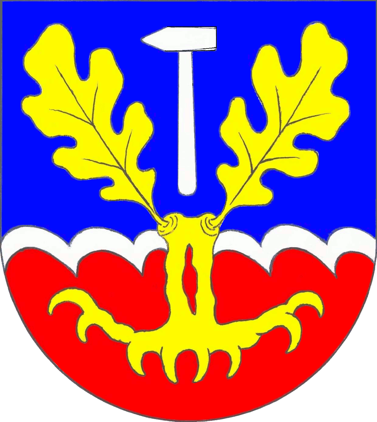 Coat of arms of the municipality Fleckeby in Schleswig-Holstein, Germany.